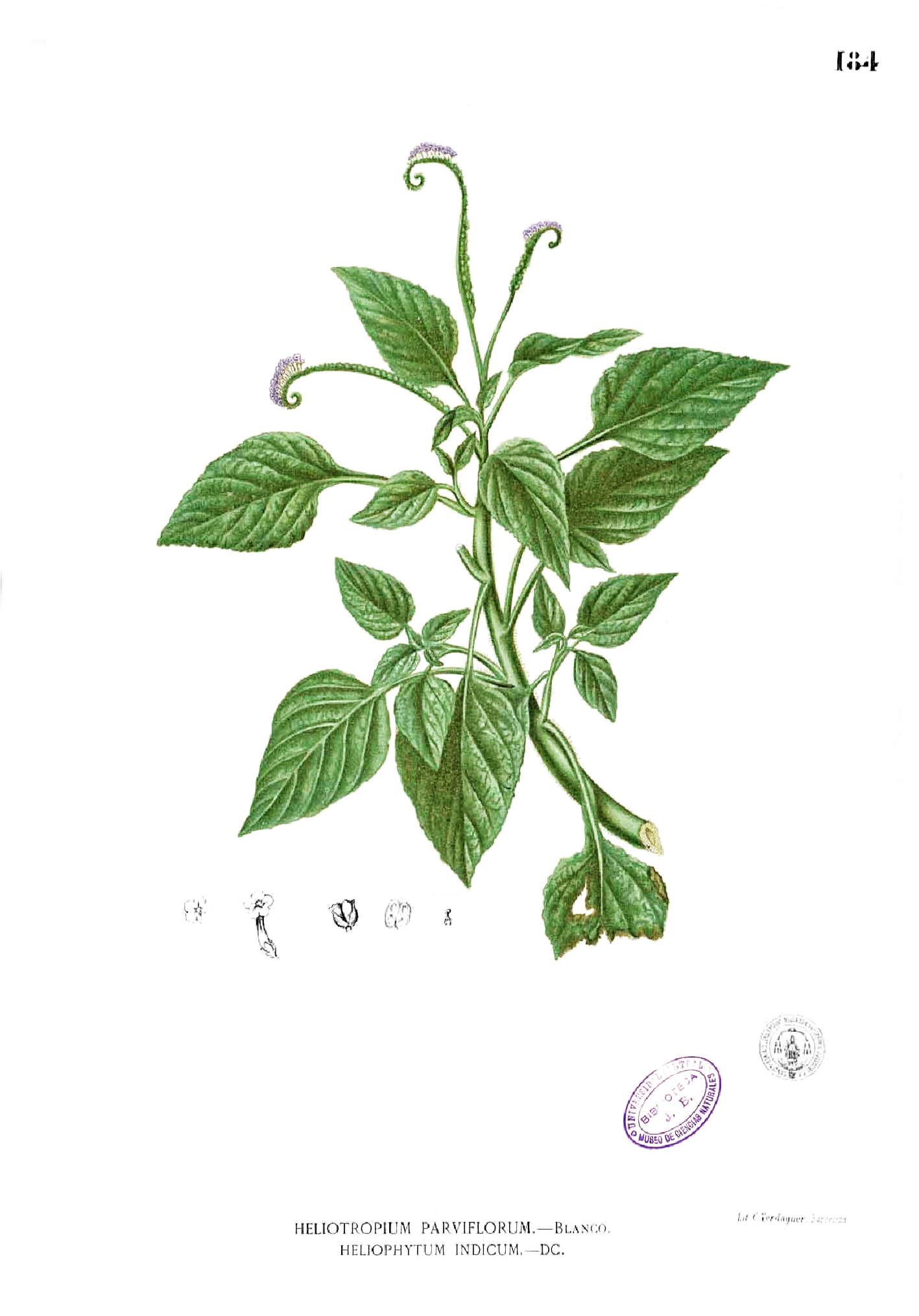 Plate from book